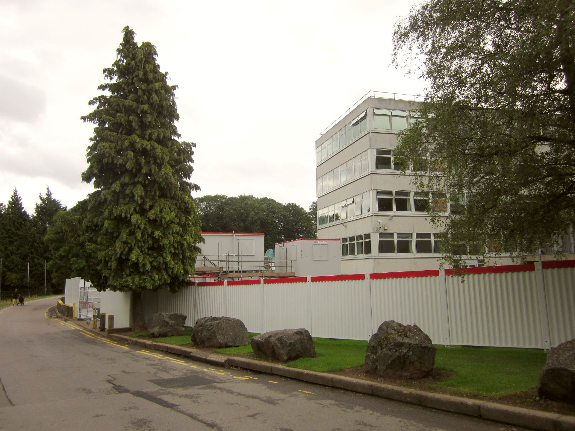 Bower Ashton Campus, UWE